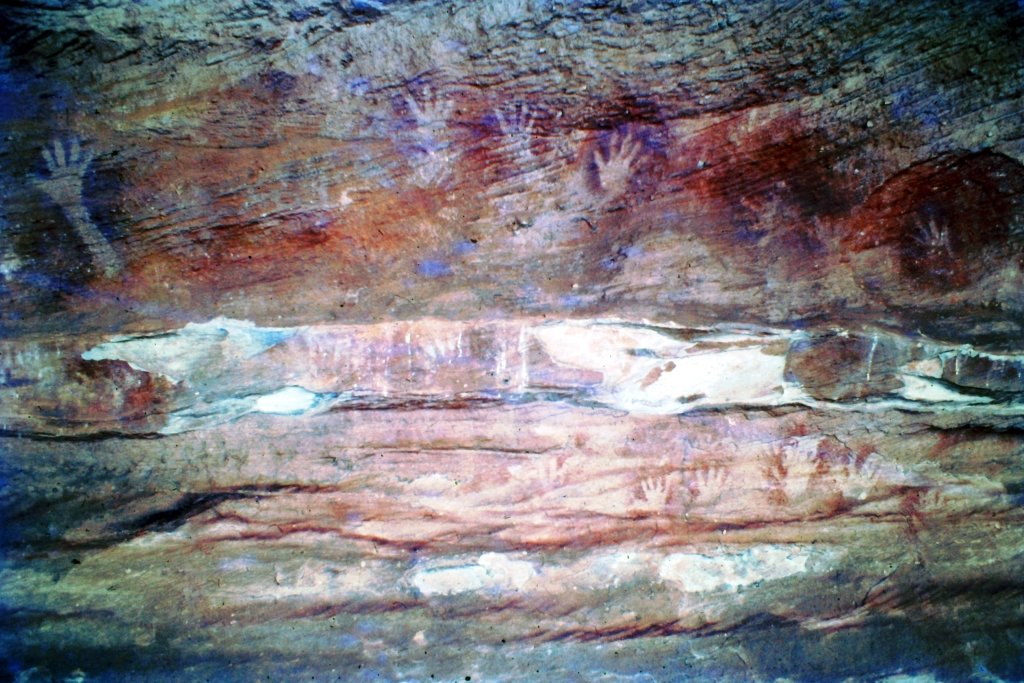 I took this photo on a driving trip through far west New South Wales in 1976